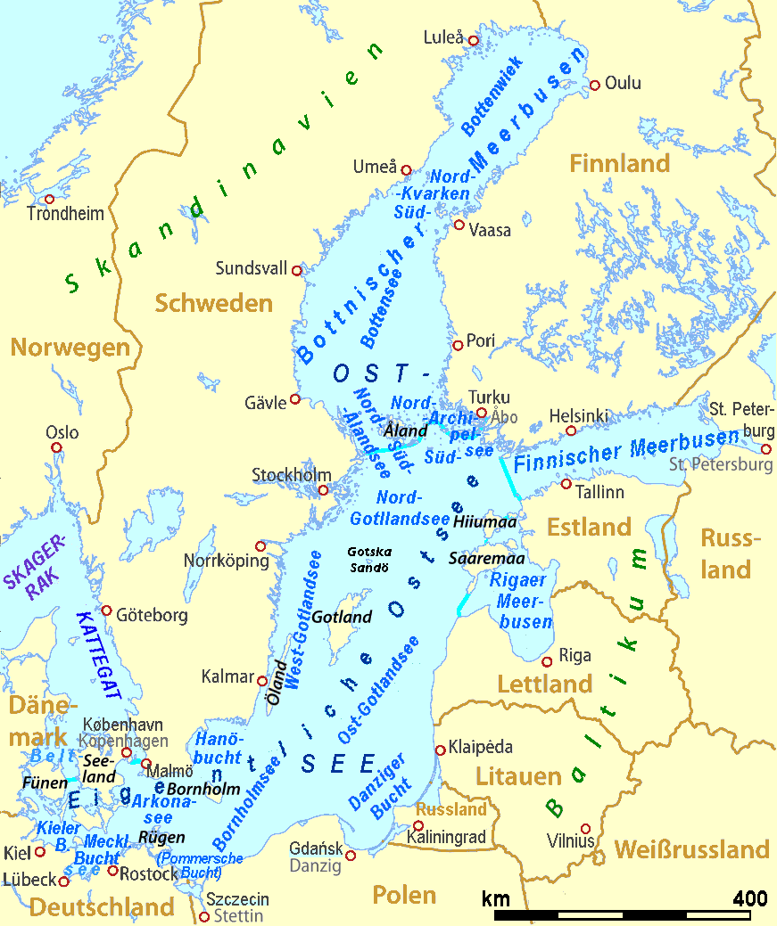 divisions of the Baltic Sea